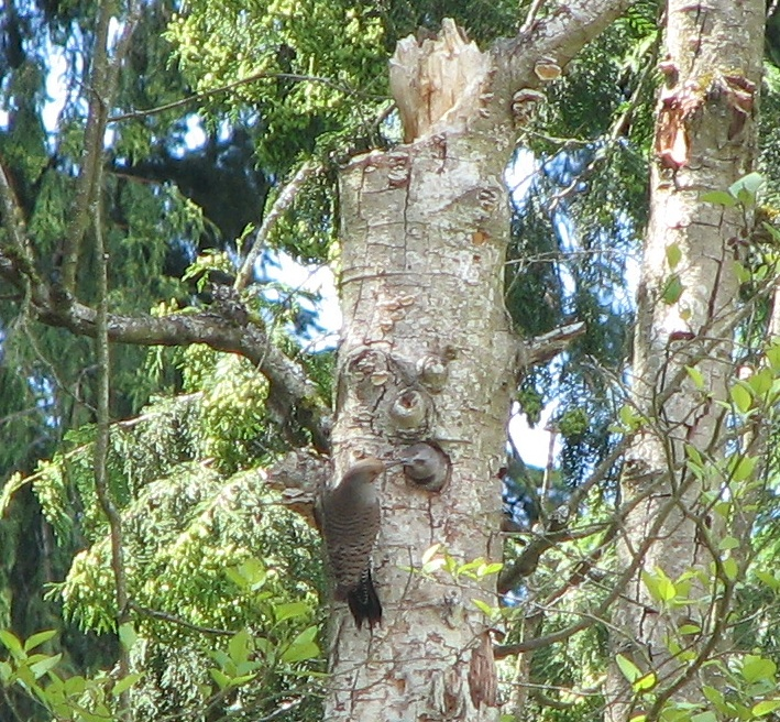 Red-shafted Northern Flicker feeding a chick at the nest hole entrance.